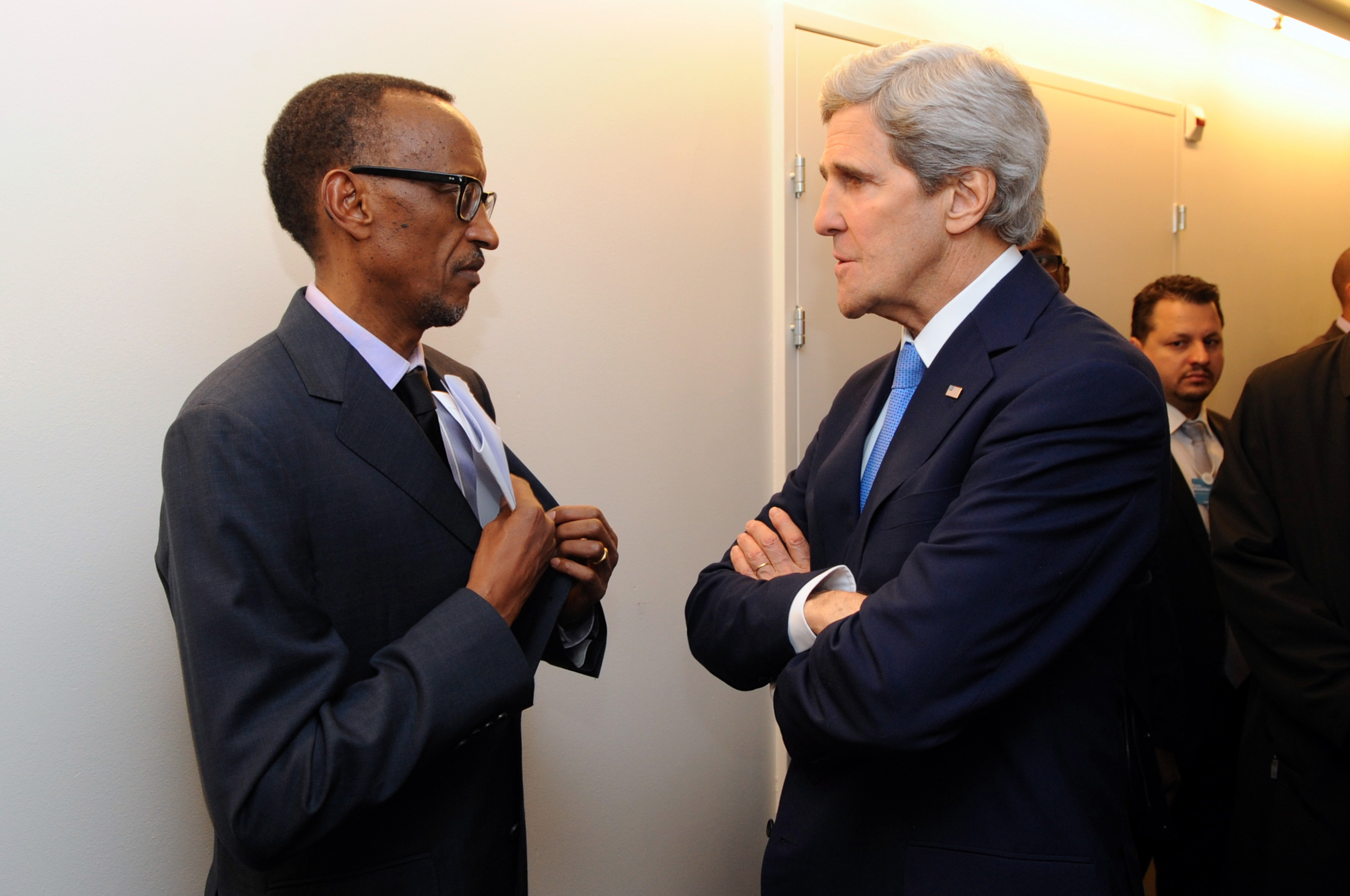 U.S. Secretary of State John Kerry chats backstage with Rwandan President Paul Kagame after delivering the keynote speech at the World Economic Forum in Davos, Switzerland, on January 24, 2014. [State Department photo/ Public Domain]